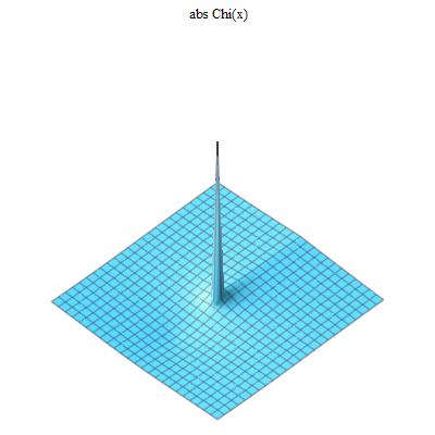 Chi(x) abs complex 3D plot